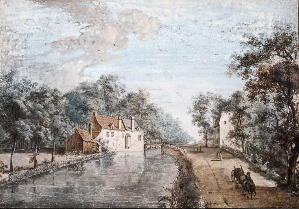 Vilvoorde 18de eeuw, Kanaal, 33 x 48 cm, ink and watercolors. Philippe Cardon is the older brother of Anthony Cardon.